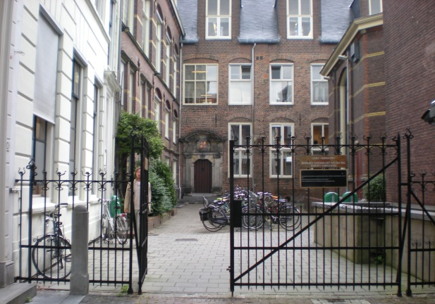 The Law Library is in De Hoogt, in the very centre of Utrecht. As the name indicates, the main part of the library consists of law books, though there're also books on economics. Indeed, the Departments of Law, Economics and Governance of Utrecht University belong to the same faculty.